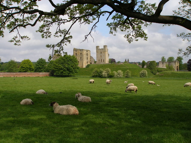 A beautiful English pastoral view With animals grazing or sheltering from the sun and Helmsley Castle behind.